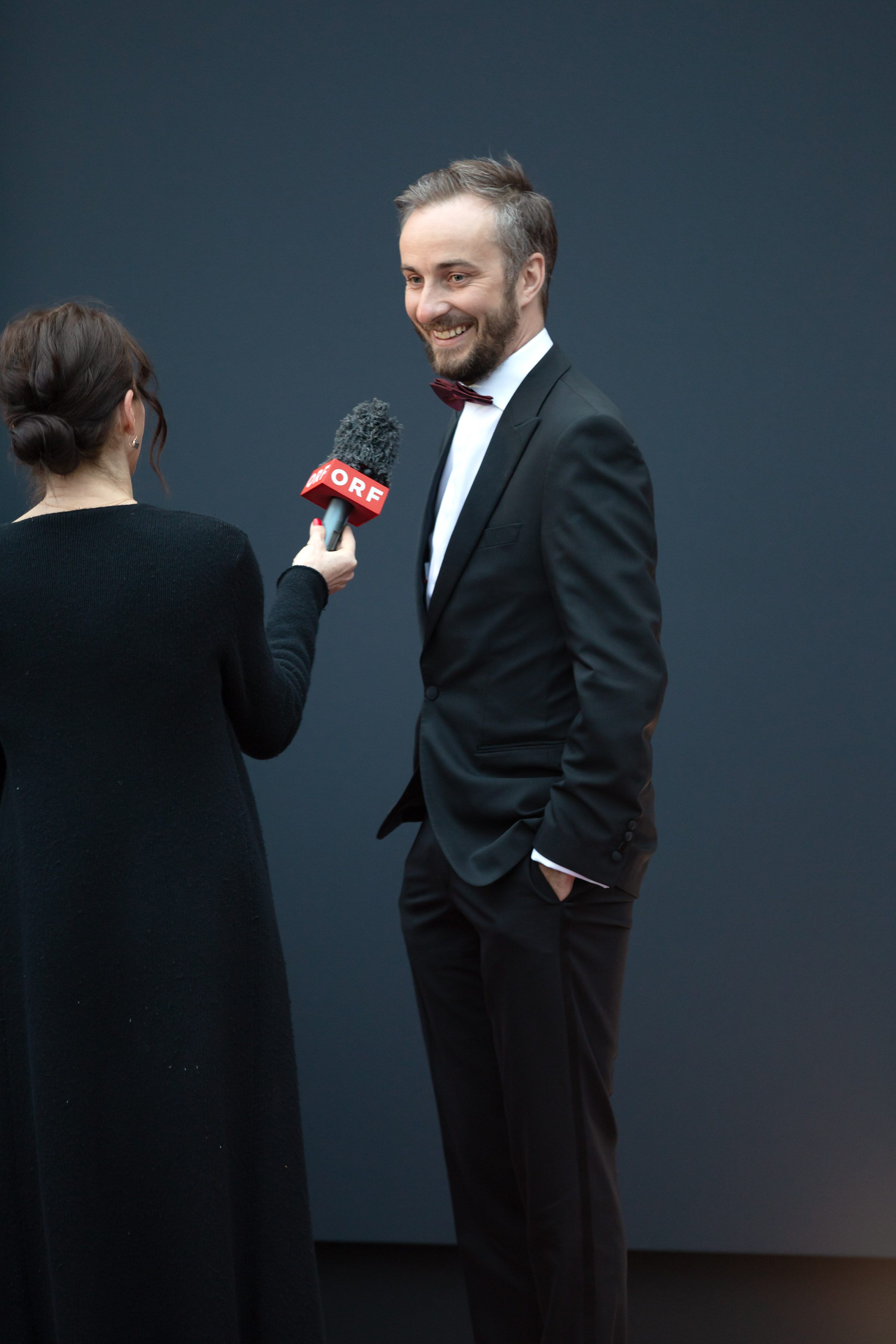 Jan Böhmermann on the red carpet of the Romy TV awards 2018 at Hofburg Palace in Vienna, Austria.